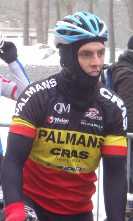 Rob Goris at cyclocross Mol 2010